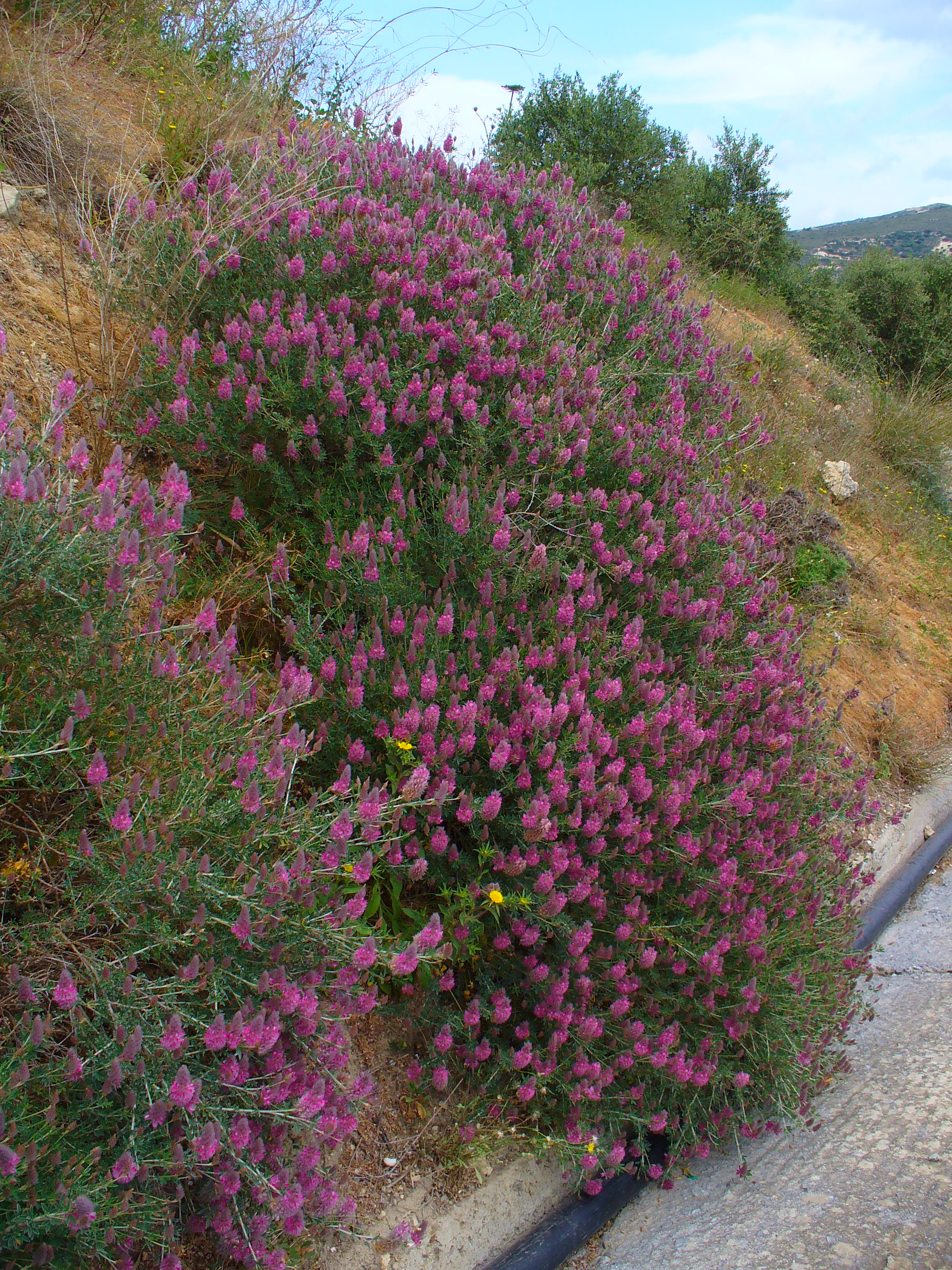 Ebenus cretica L., Cretan Ebony, habitus; Kalamafka, Crete, Greece.